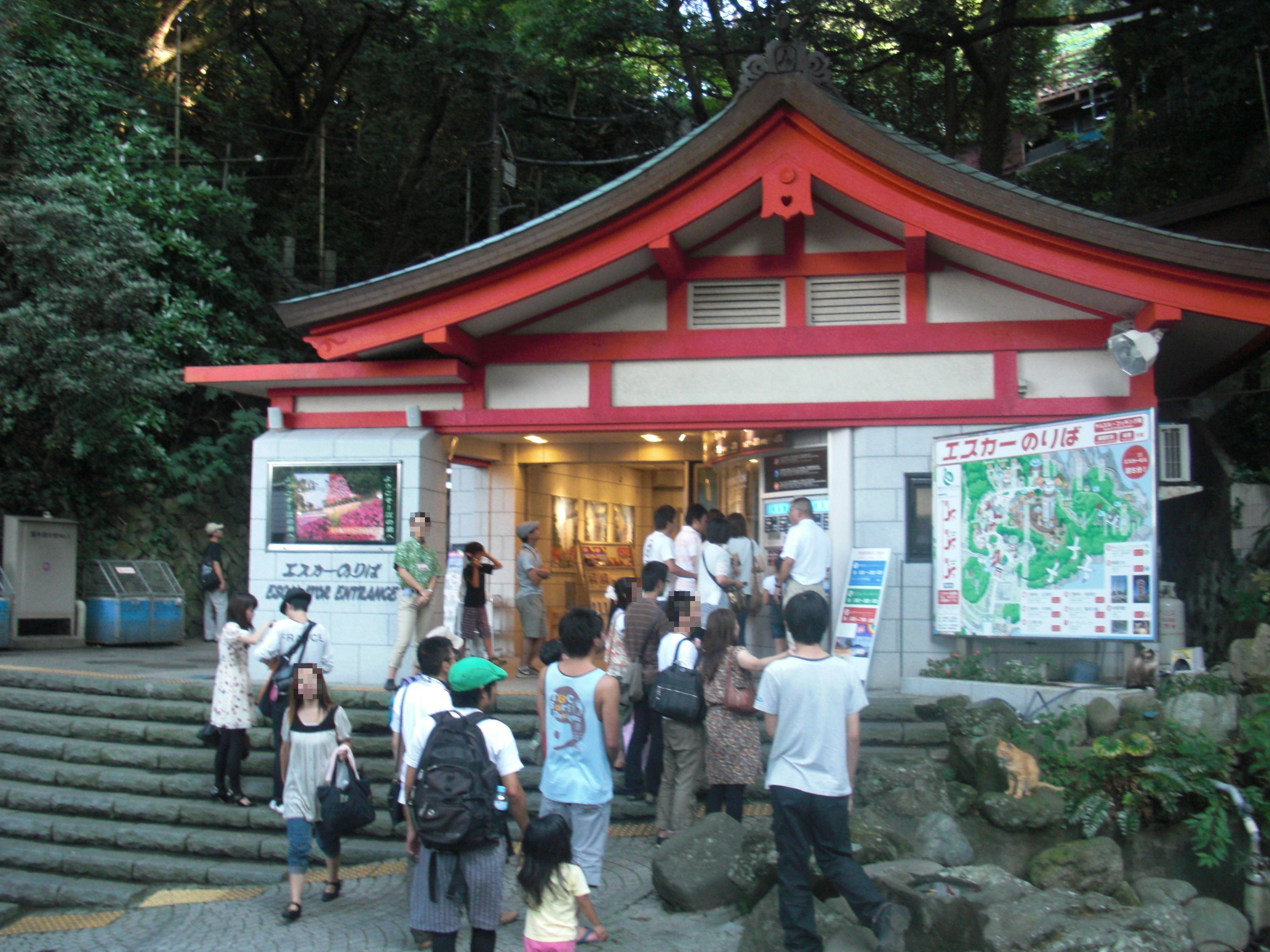 This is the first gate for Enoshima Escar, , an outdoor toll escalator in Enoshima, Fujisawa, Kanagawa, Japan.